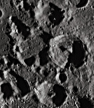 Ball lunar crater as seen from Earth with satellite craters labeled